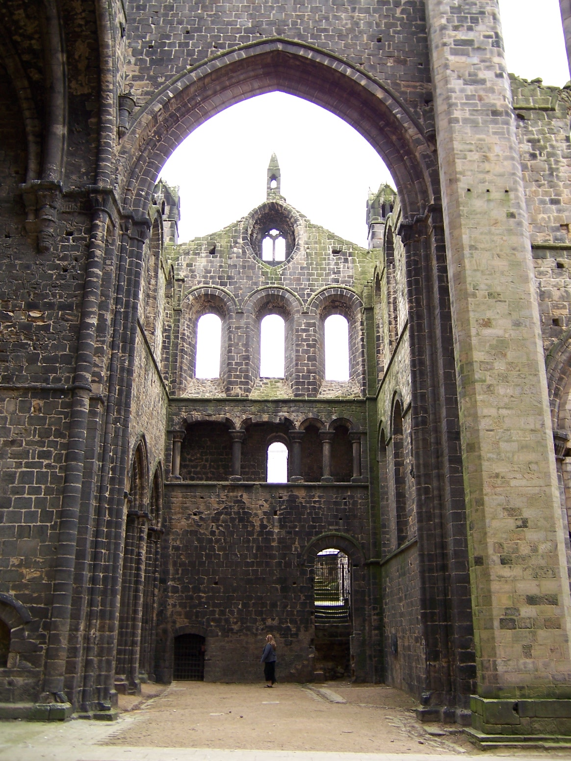 südliches transept of the church of Kirkstall Abbey in Leeds, Yorkshire (England) own work; photo taken on 30 April 2006